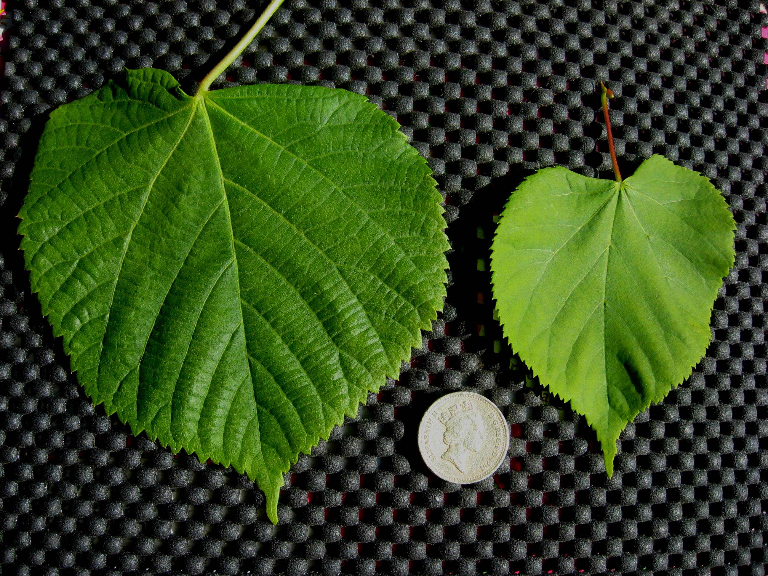 Photo comparing leaves of Tilia platyphyllos (left)_ and Tilia cordata, with £1 sterling coin as scale, taken Great Fontley, UK, June 2015.